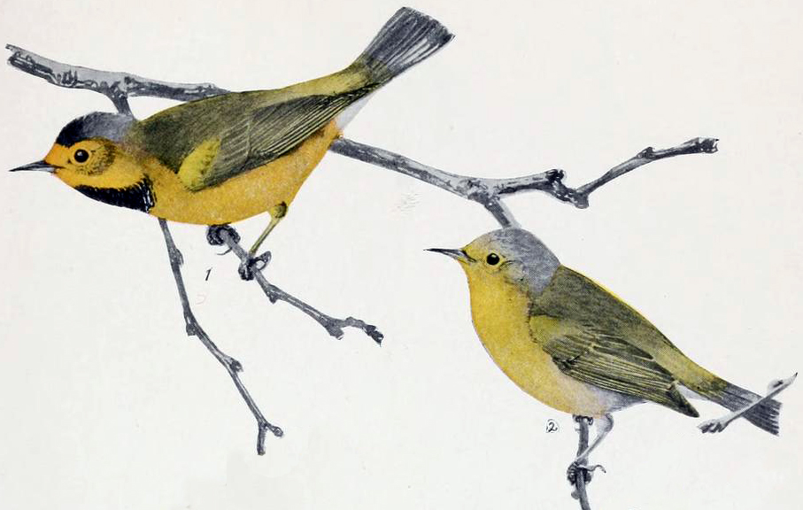 Bachman's Warbler, Vermivora bachmanii, male (upper) and female (lower).